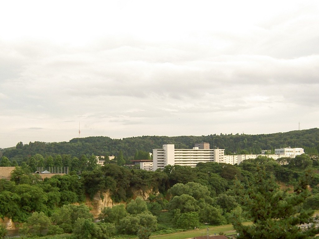 Aoba-yama hills photographed from across the Hirose-gawa river. Some of the buildings contain the Kawauchi campus of Tohoku University. The city of Sendai, Japan is nested in the foothills of Aoba-yama. Also, the site of Sendai castle (aka Aoba castle) built in 1601 is in the hills.